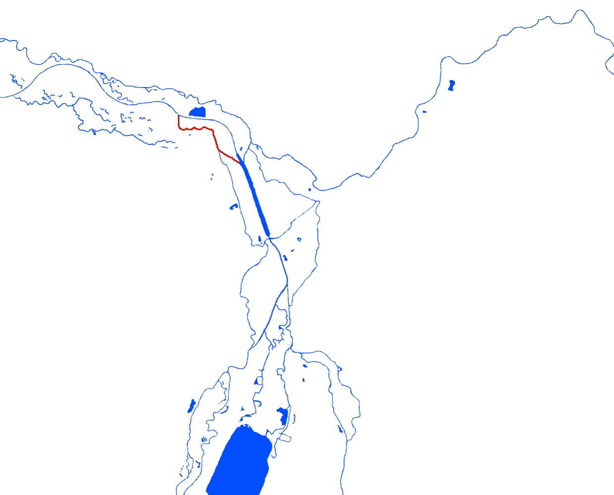 The Waterknot of Leipzig with the Nahle (in red)